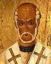 Gregory Thaumaturgus